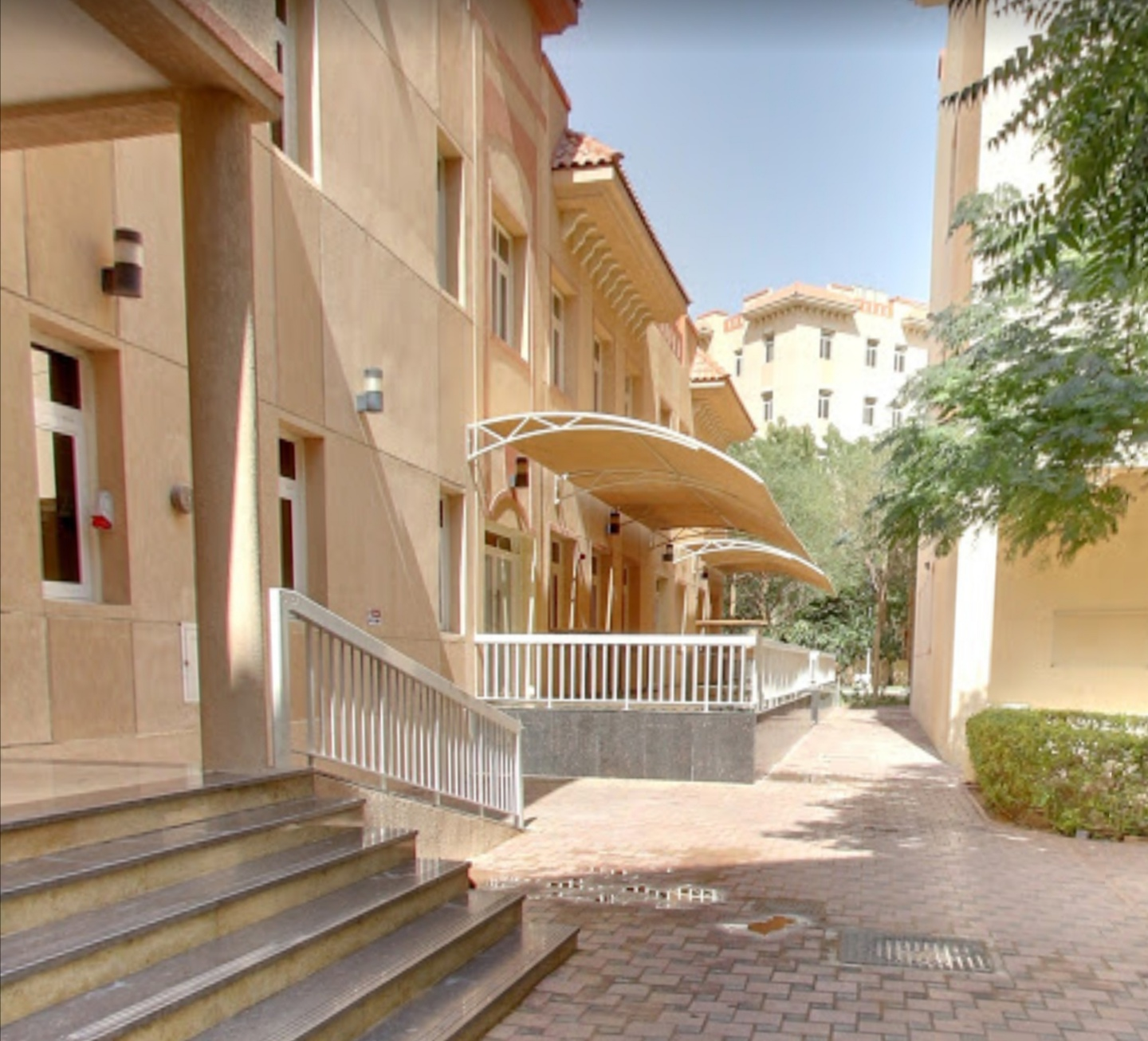 Cafeteria adjacent to Library block